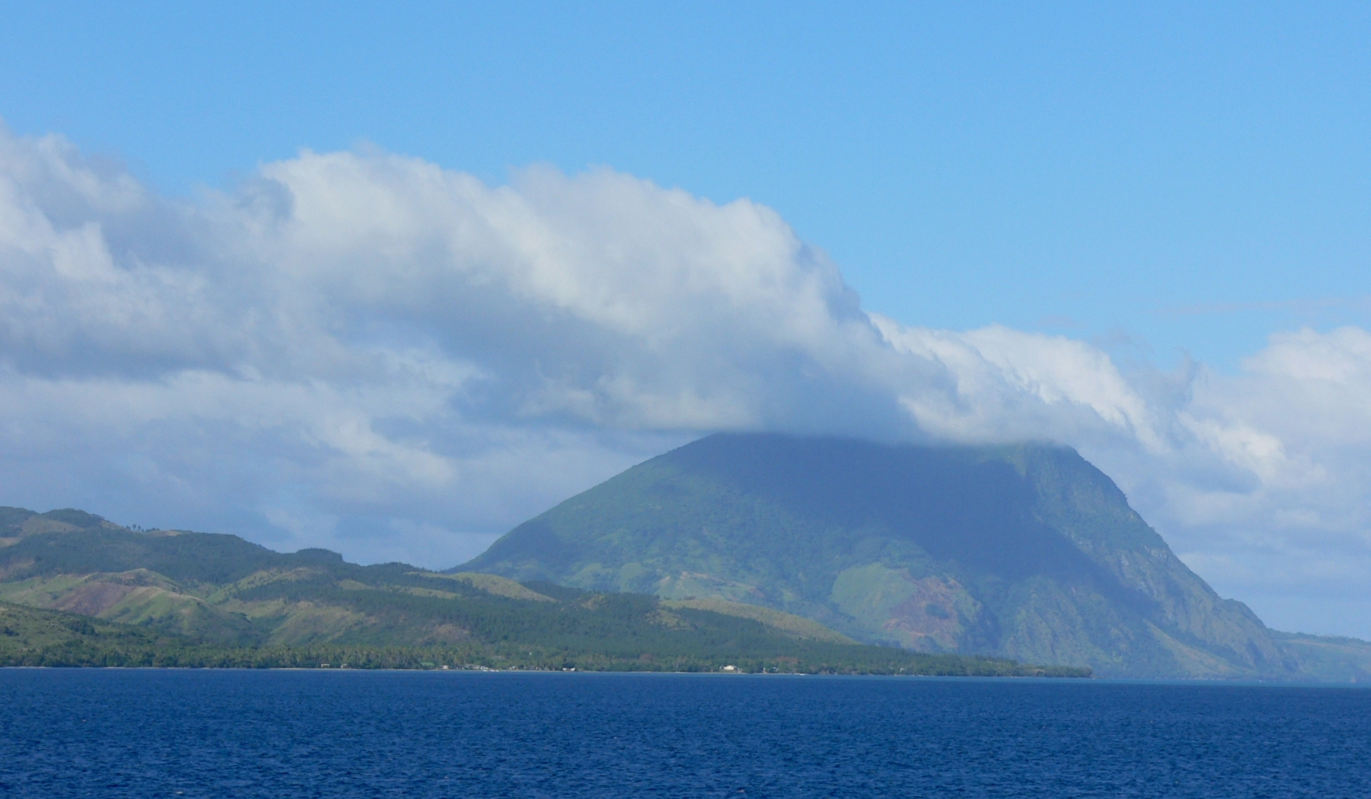 Mount Washinton (Nabukelevu)